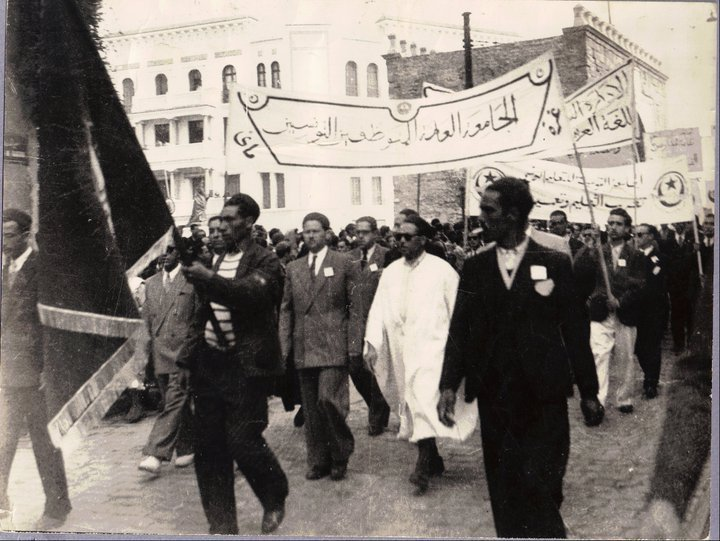 UGTT syndicalists during a labour march